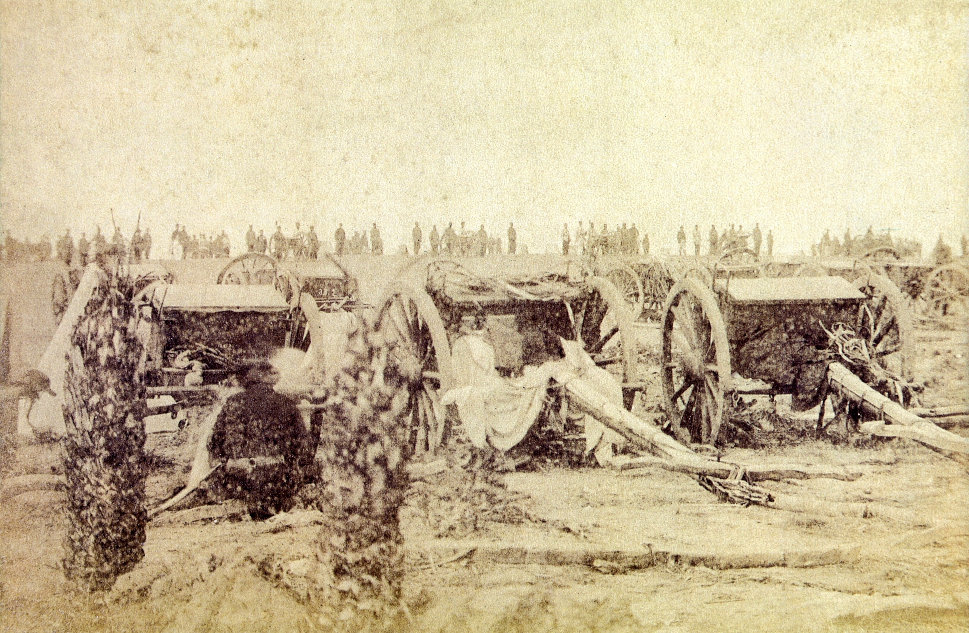 Brazilian artillery commanded by Colonel Mallet during the Paraguayan War, 1866.